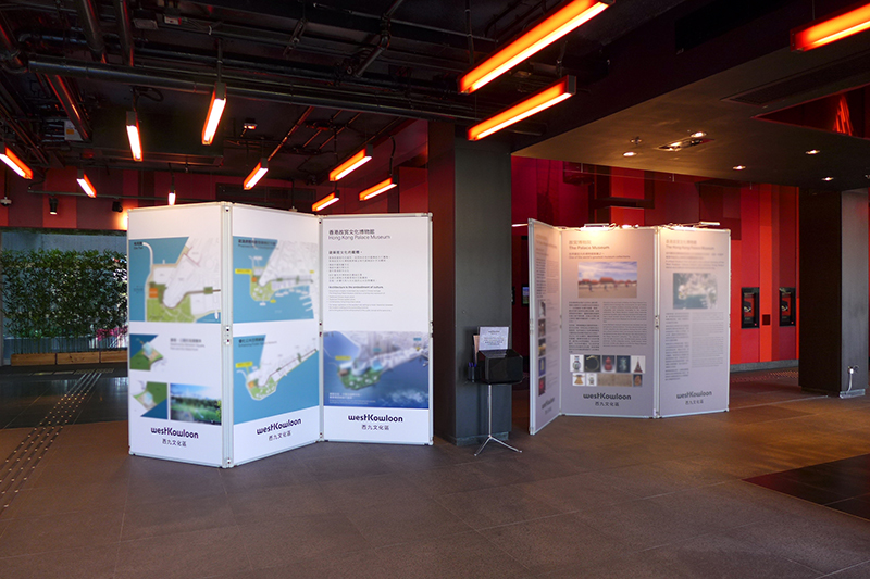 Hong Kong Palace Museum Consultation